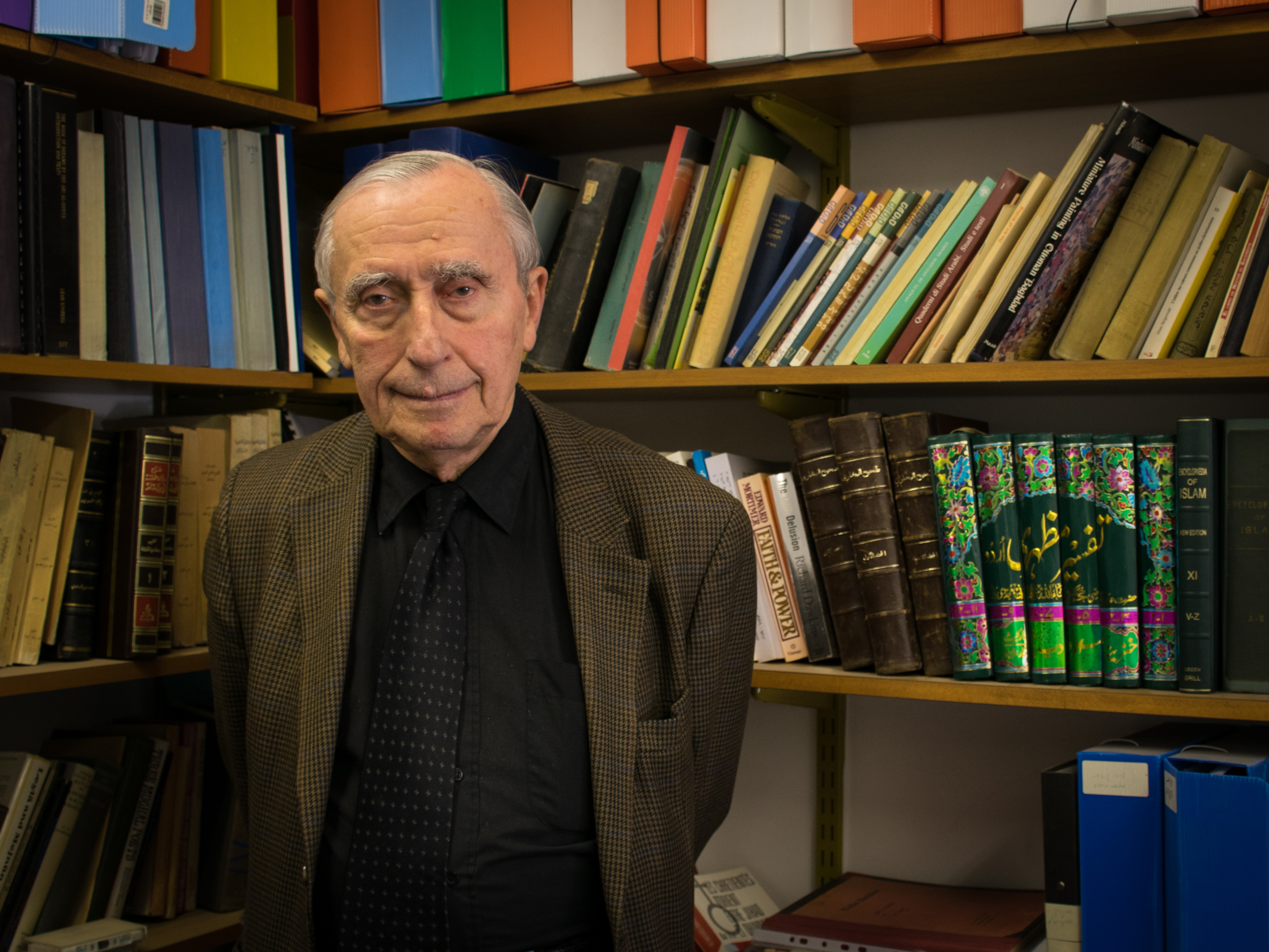 Proffessor Yohanan Friedmann. Israeli Scholar of Islamic Studies